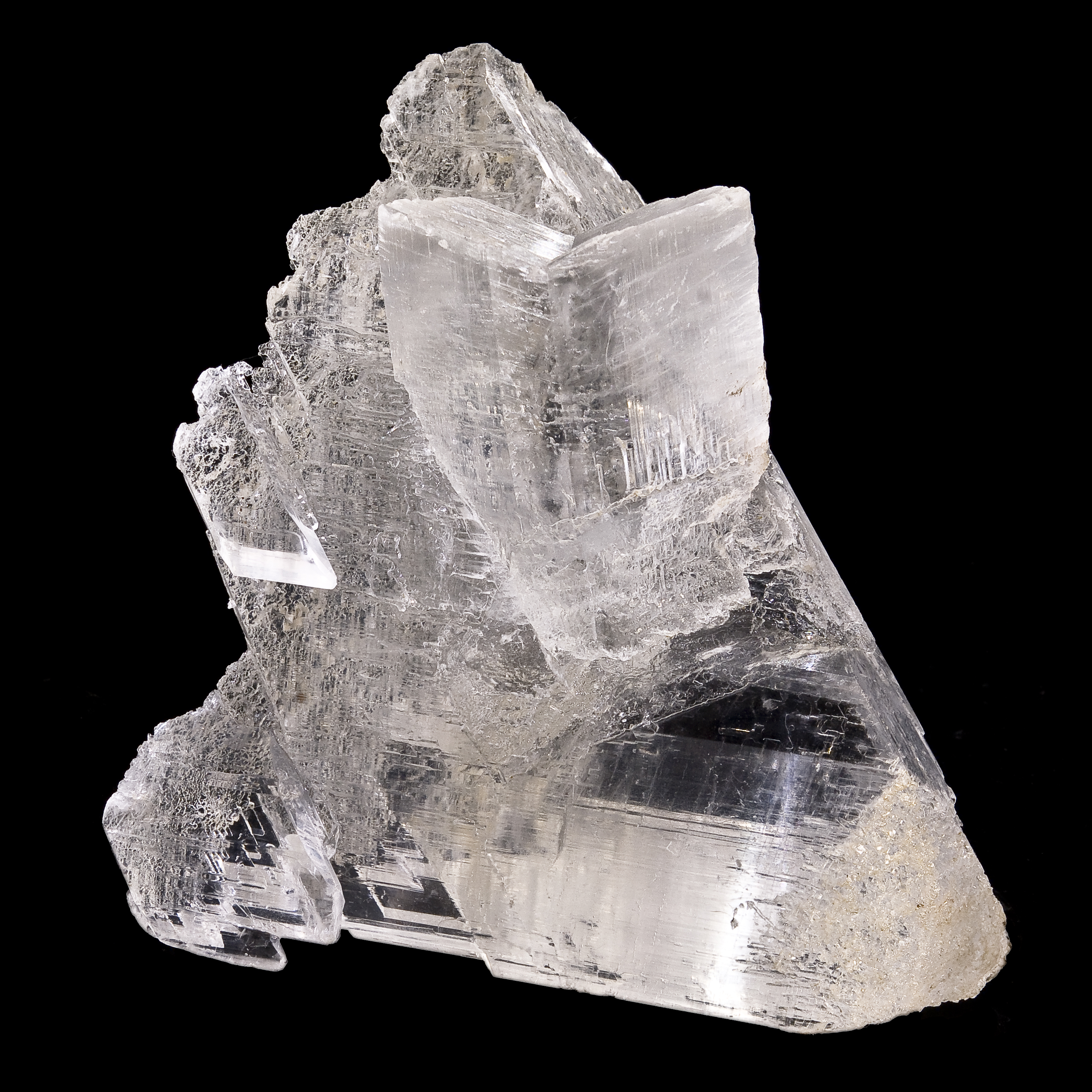 Gypsum - Twin on {110} Locality : Arignac, Tarascon-sur-Ariège, Ariège, Midi-Pyrénées, France Size :11.3x10cm